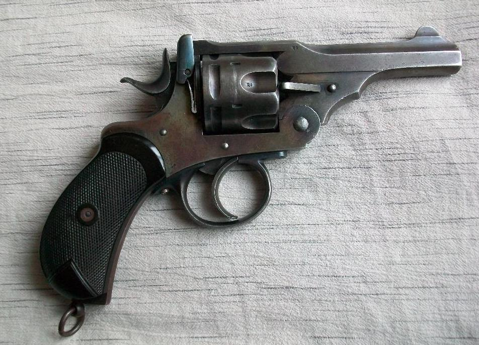 Photograph of a Webley Mk I revolver, manufactured circa 1887. The Webley Mk I is a status Antique, in both Canada and the United States, as it was made before 1898, and was designed to chamber Webley .455 (Mk I) calibre ammunition.